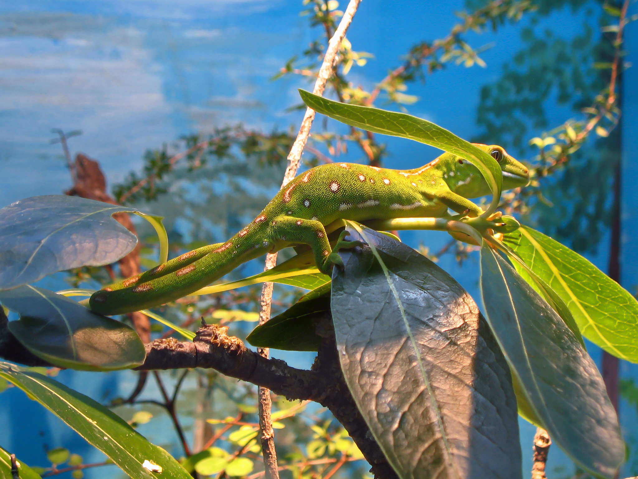 Northland Green Gecko (Naultinus grayii), Orana Wildlife Park, Christchurch, New Zealand.